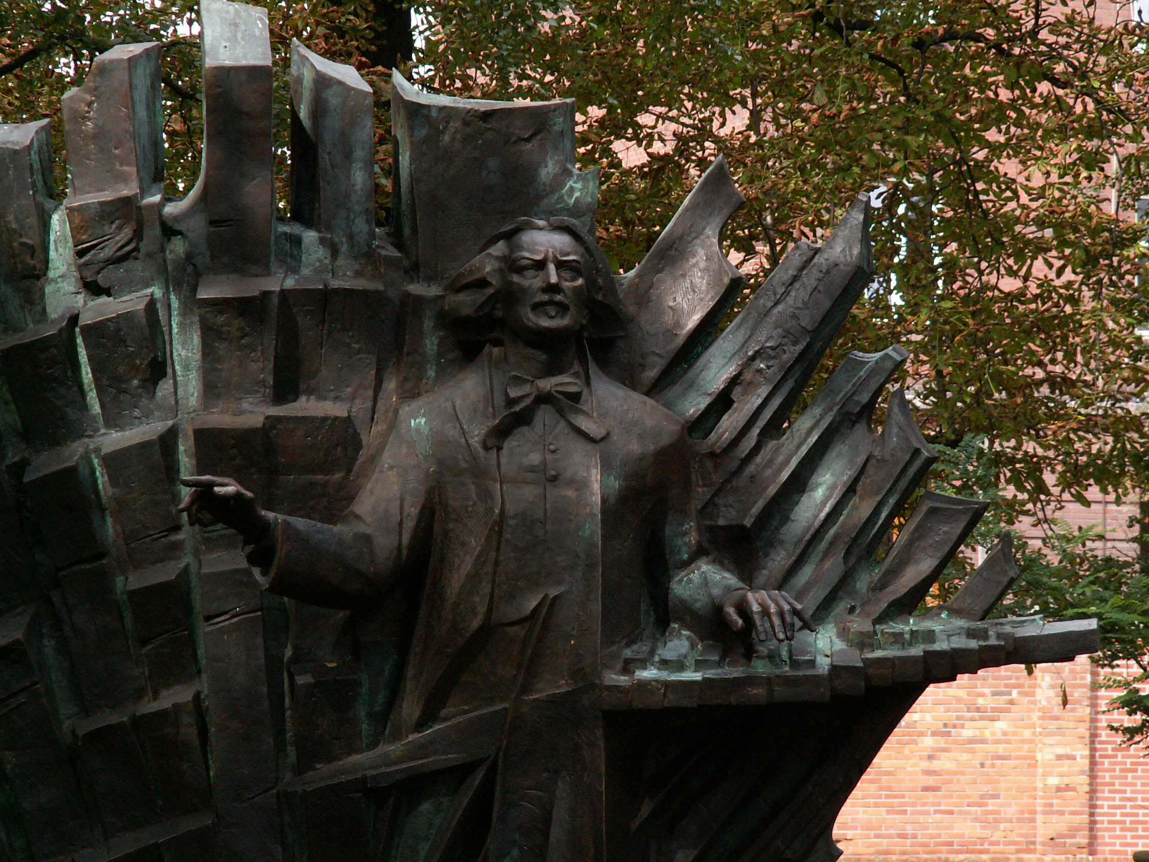 Paderewski monument (detail1),Strzelecki Park,Krakow, Poland